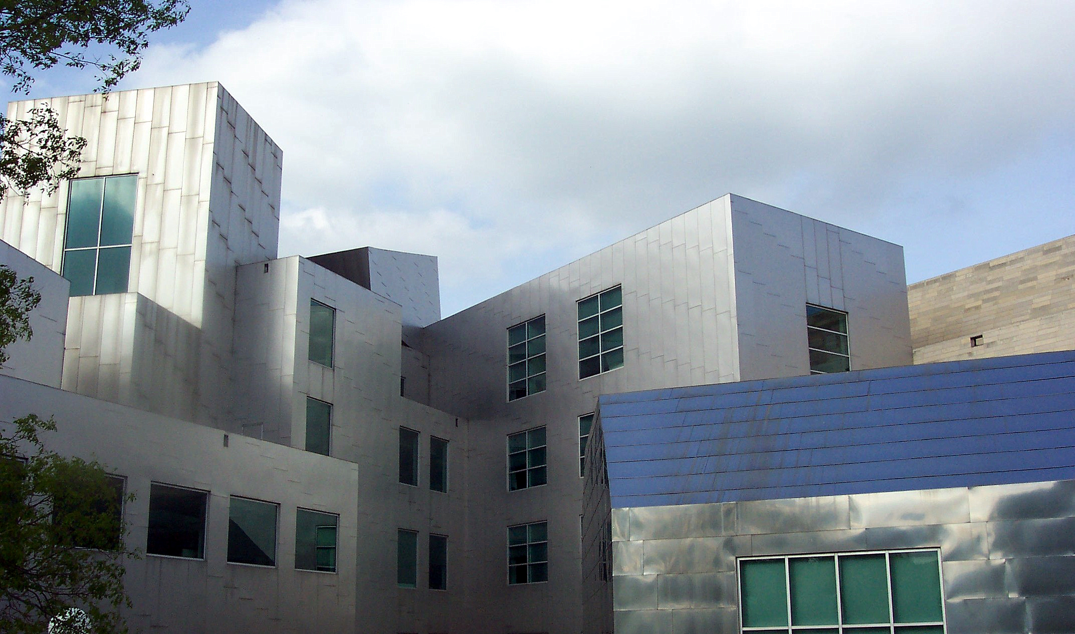 Iowa Advanced Technology Laboratories, designed by Frank Gehry